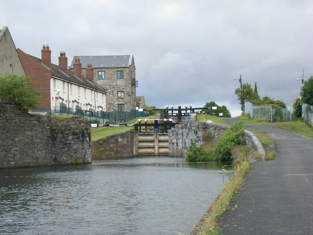 6th Lock on the Royal Canal at Phibsborough, Dublin